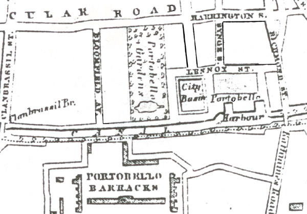 Part of an old hand-drawn map in my possession, dating from about 1840, author unknown, showing Portobello, Dublin, and environs.